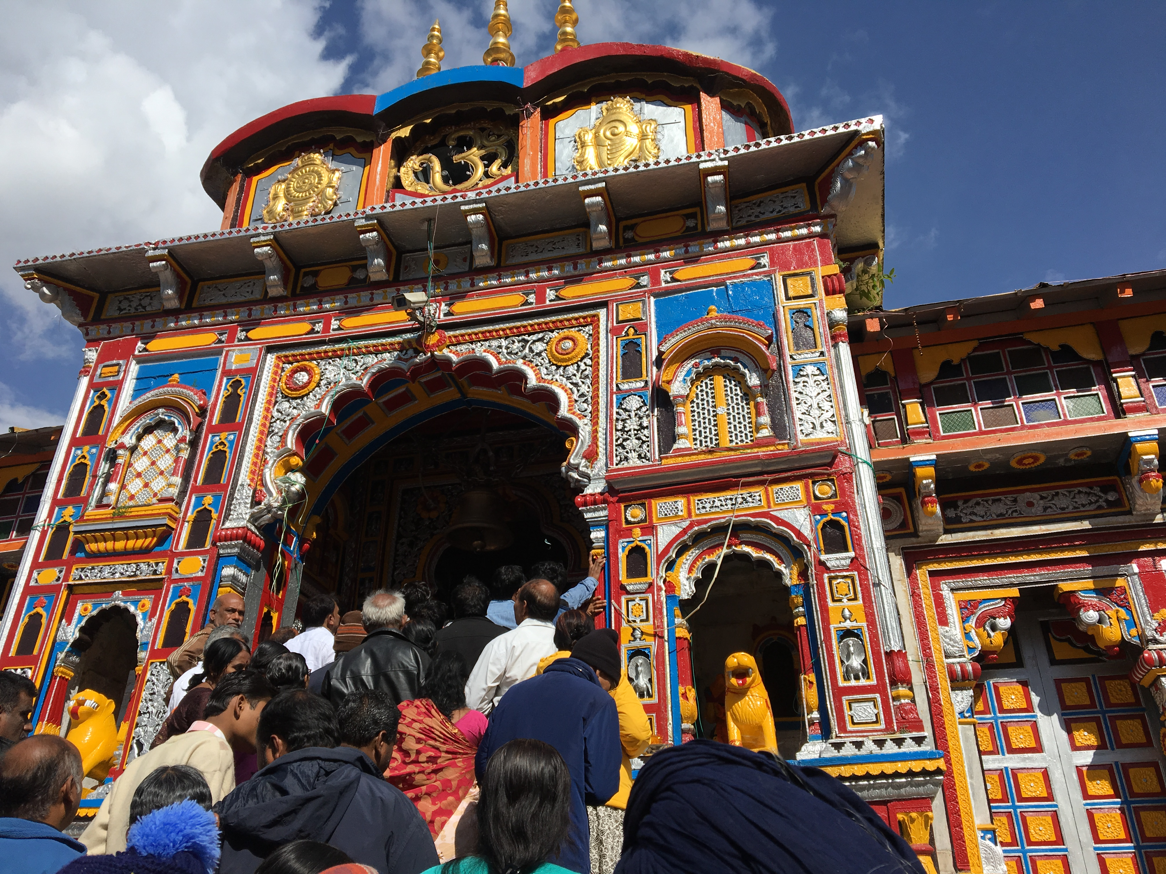 Badrinath, uttarakhand, india 2017